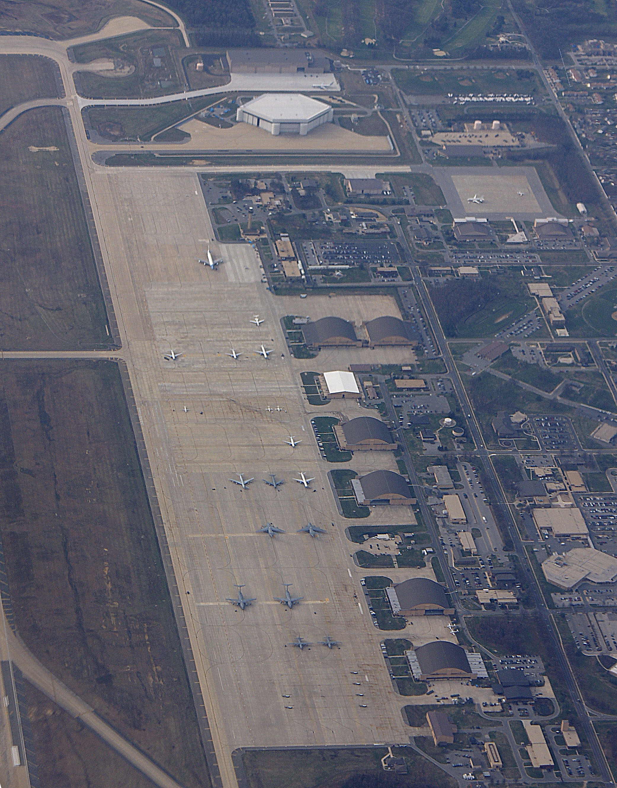 Apron of Andrews AFB aerial photograph. Parts of the United States government fleet (including Air Force One) can be seen on the upper half.